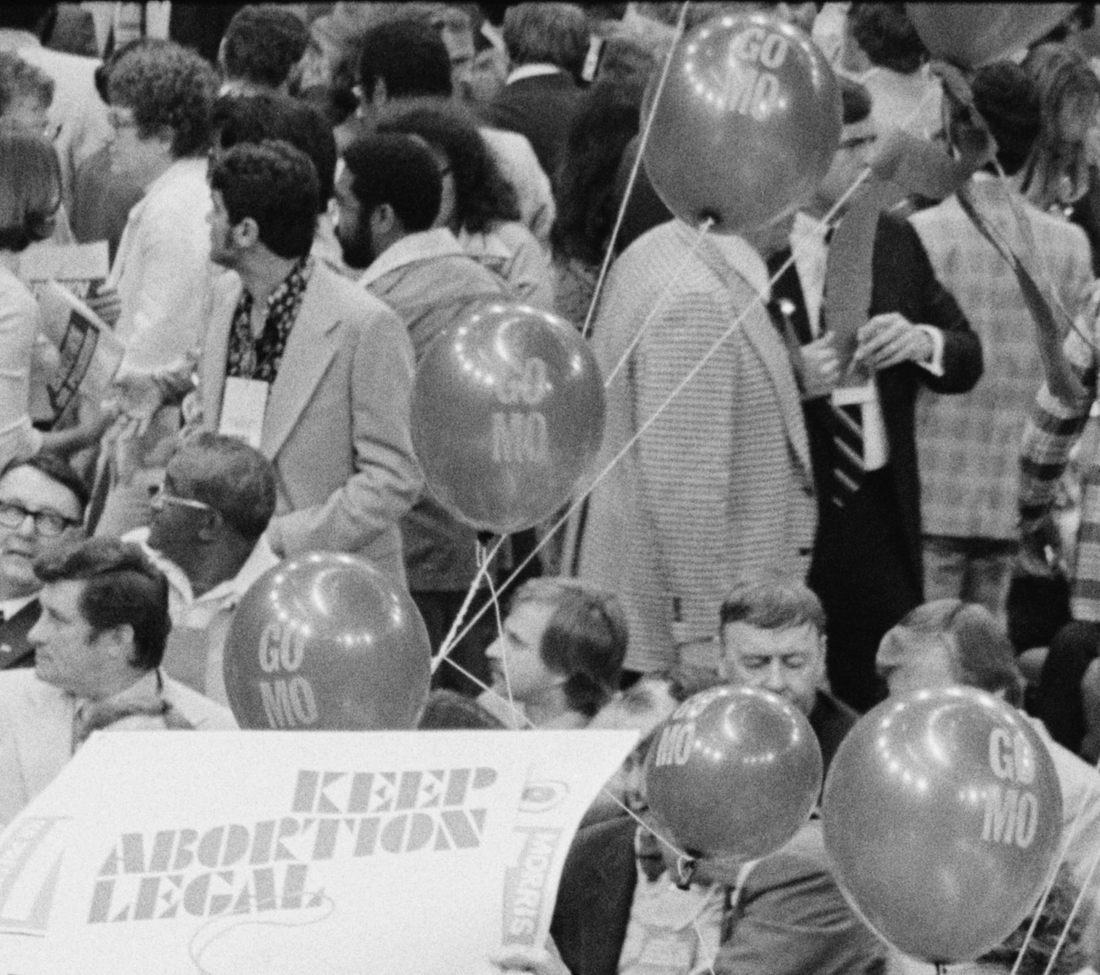 Demonstration protesting anti-abortion candidate Ellen McCormack at the Democratic National Convention, New York City